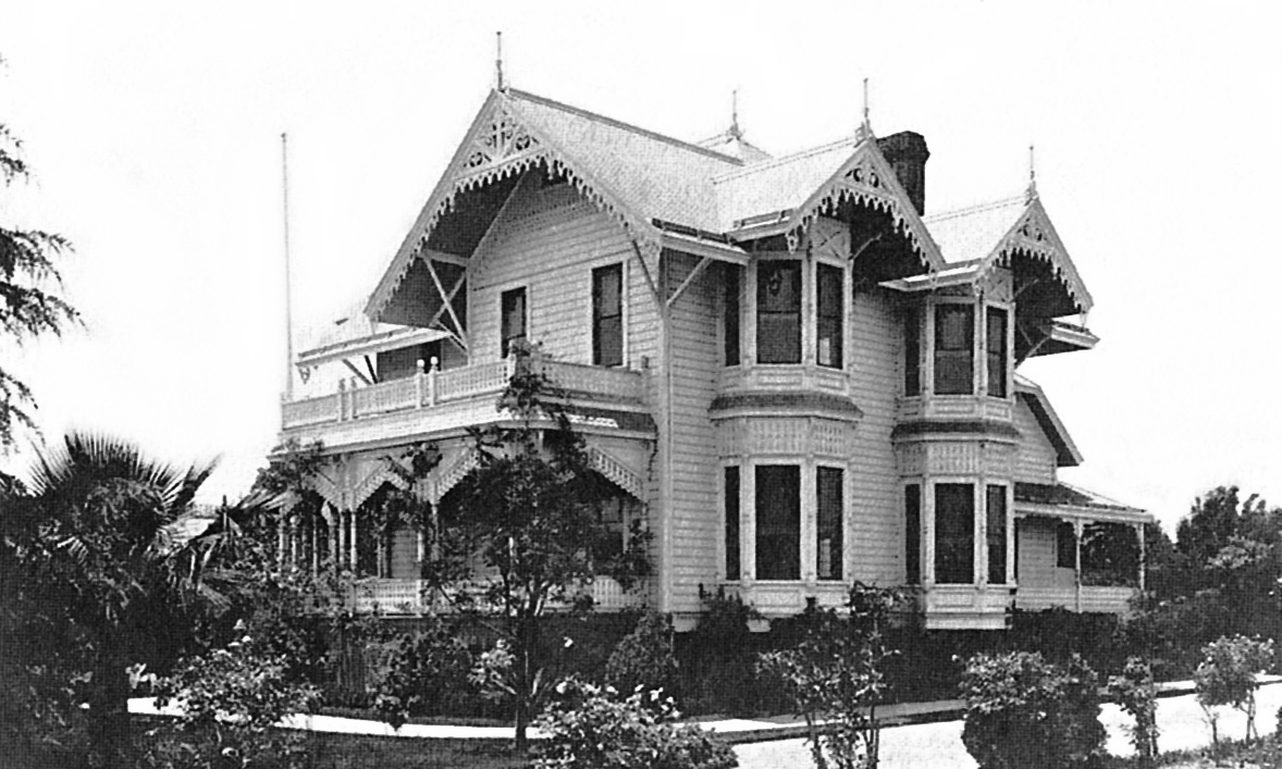 Theodore Lukens home on 267 N. Molina Ave Pasadena, California. Listed on the National Register of Historic Places in 1984.